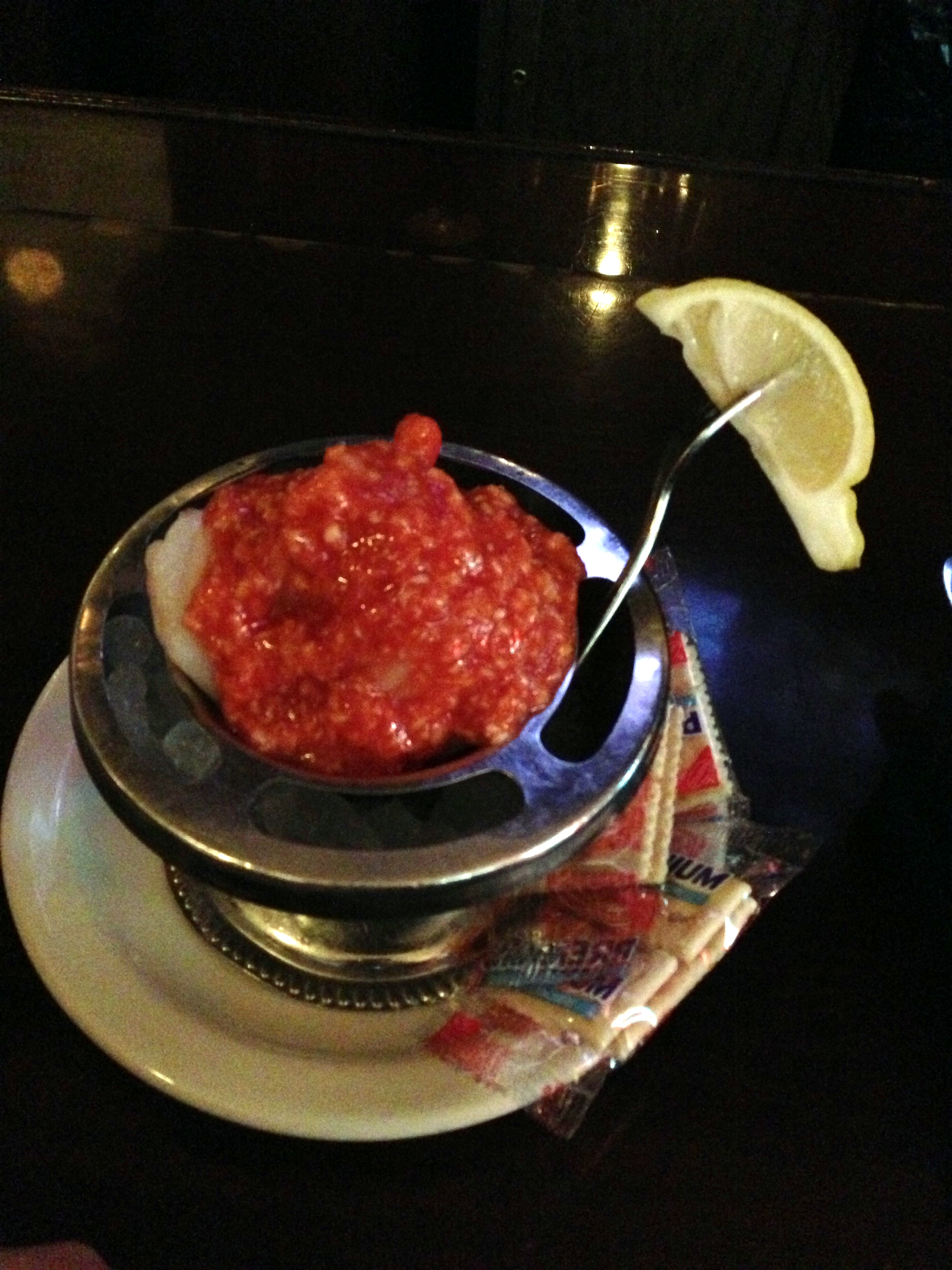 St. Elmo Steak House "World Famous Shrimp Cocktail," Indianapolis, Indiana. Four jumbo shrimp, served with St. Elmo's signature cocktail sauce.